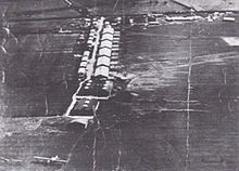 "Aerial view of RAF Northolt, looking East, 1917" per caption from book